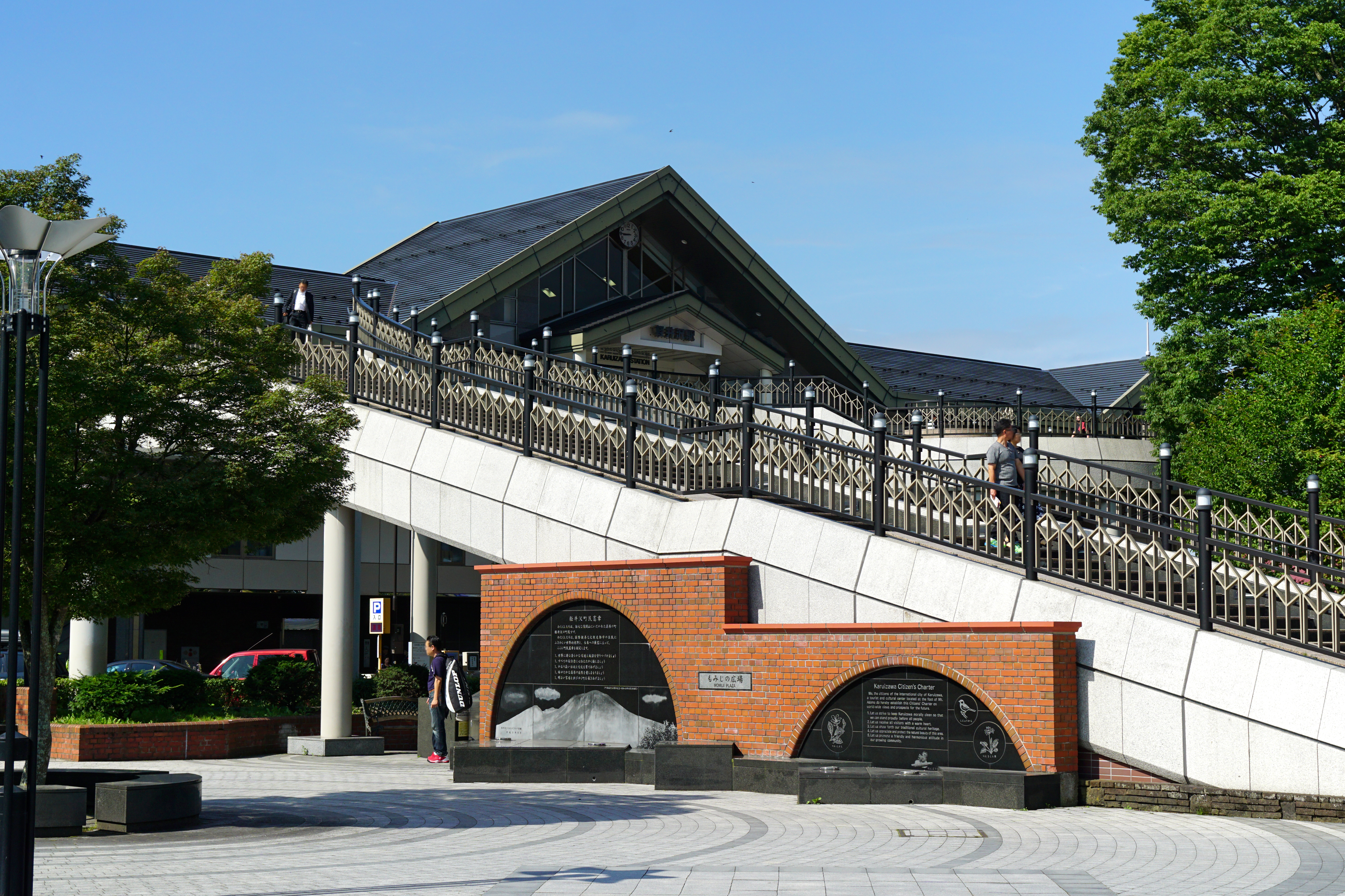 Karuizawa_Station in Karuizawa, Nagano prefecture, Japan.